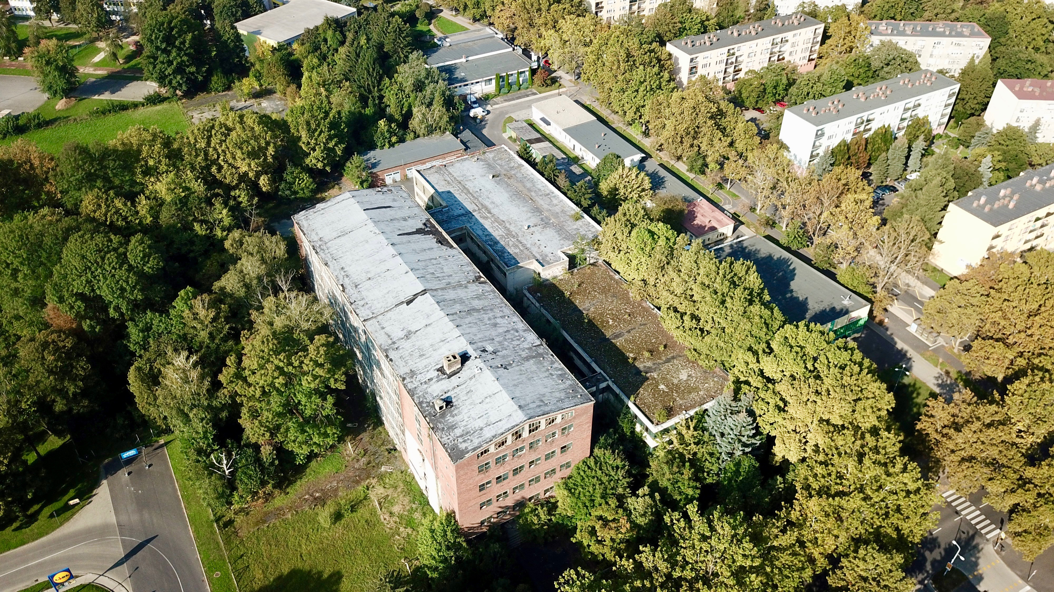 Aerial view of buildings of the former ZaKo garment factory in Zalaegerszeg